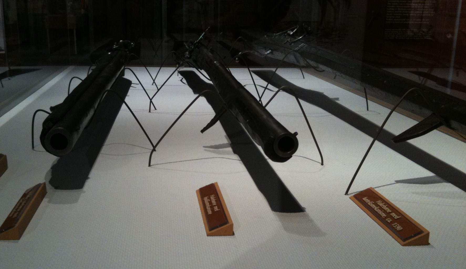 Hackenbörse (arquebuse) - 3 examples from the 1500s, in National Armament Museum, Oslo.